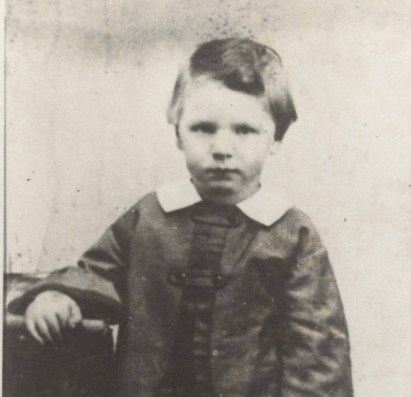 Willie Lincoln, 1855/6 ambrotype.